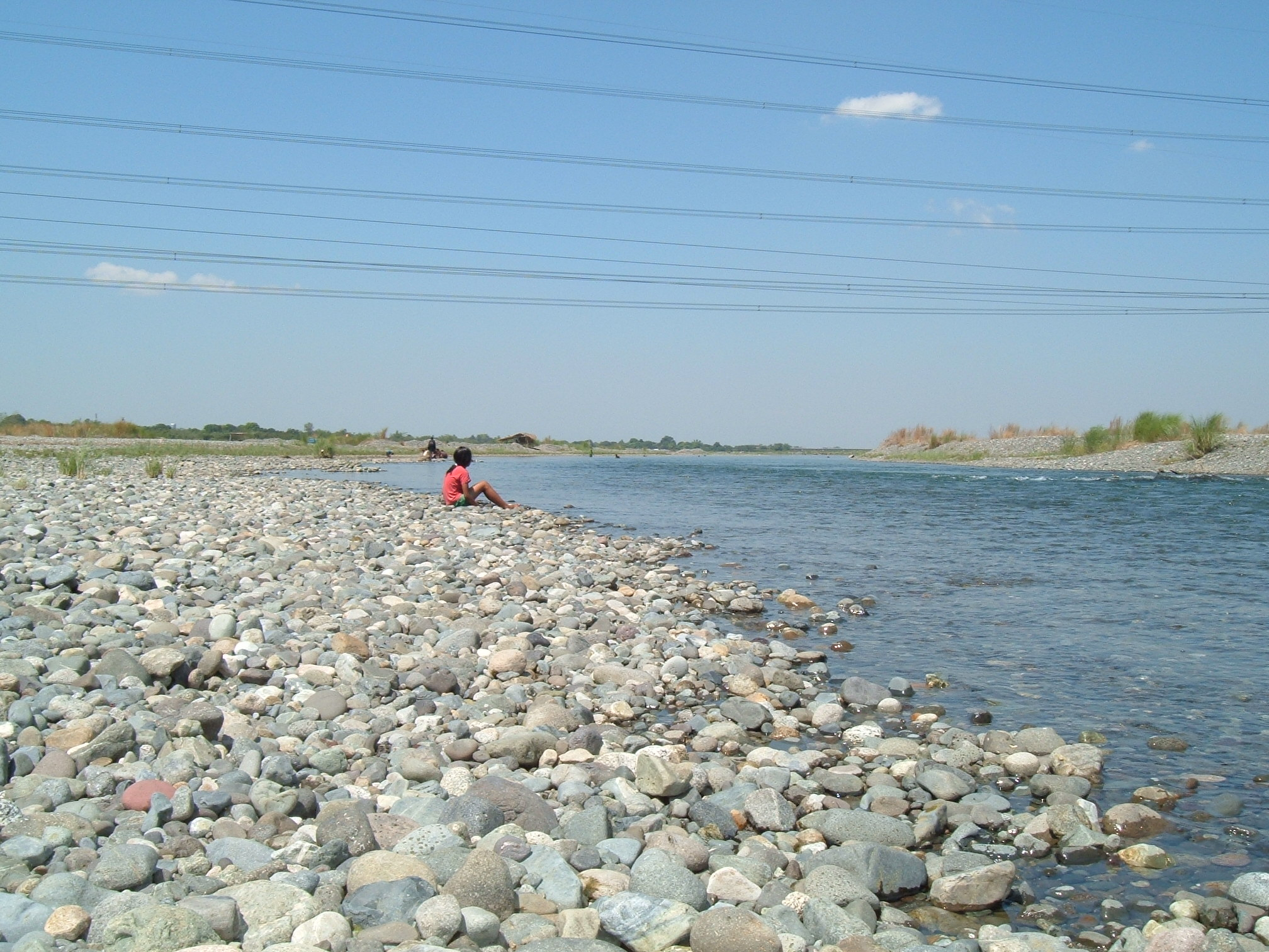 bernardeirroltugade, personal, river, luzon, pangasinan, philippines